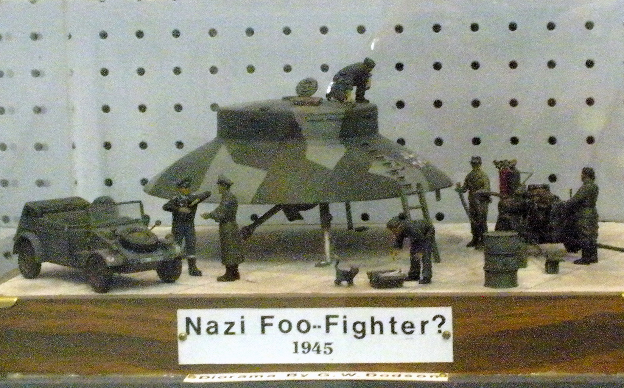 Diorama of a Nazi Foo-Fighter by G. W. Dodson, Roswell UFO Museum, Roswell, New Mexico, USA.